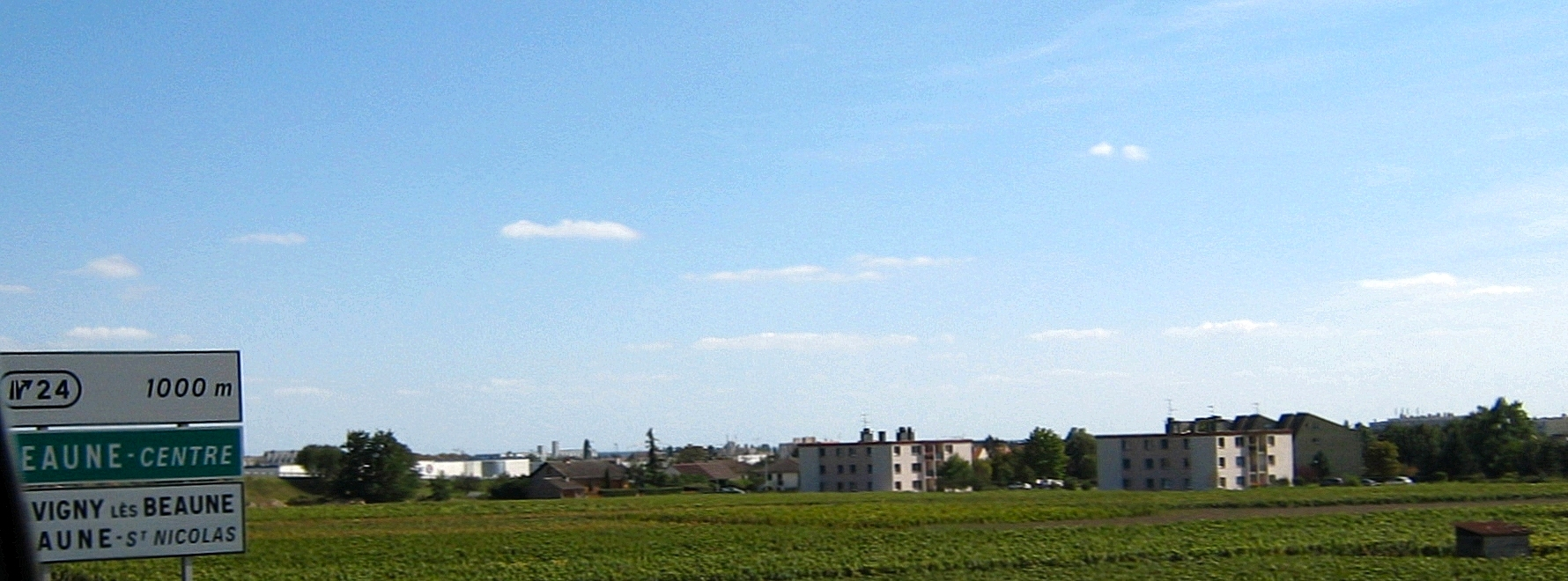 Vineyards on the outskirts of Beaune, Burgundy